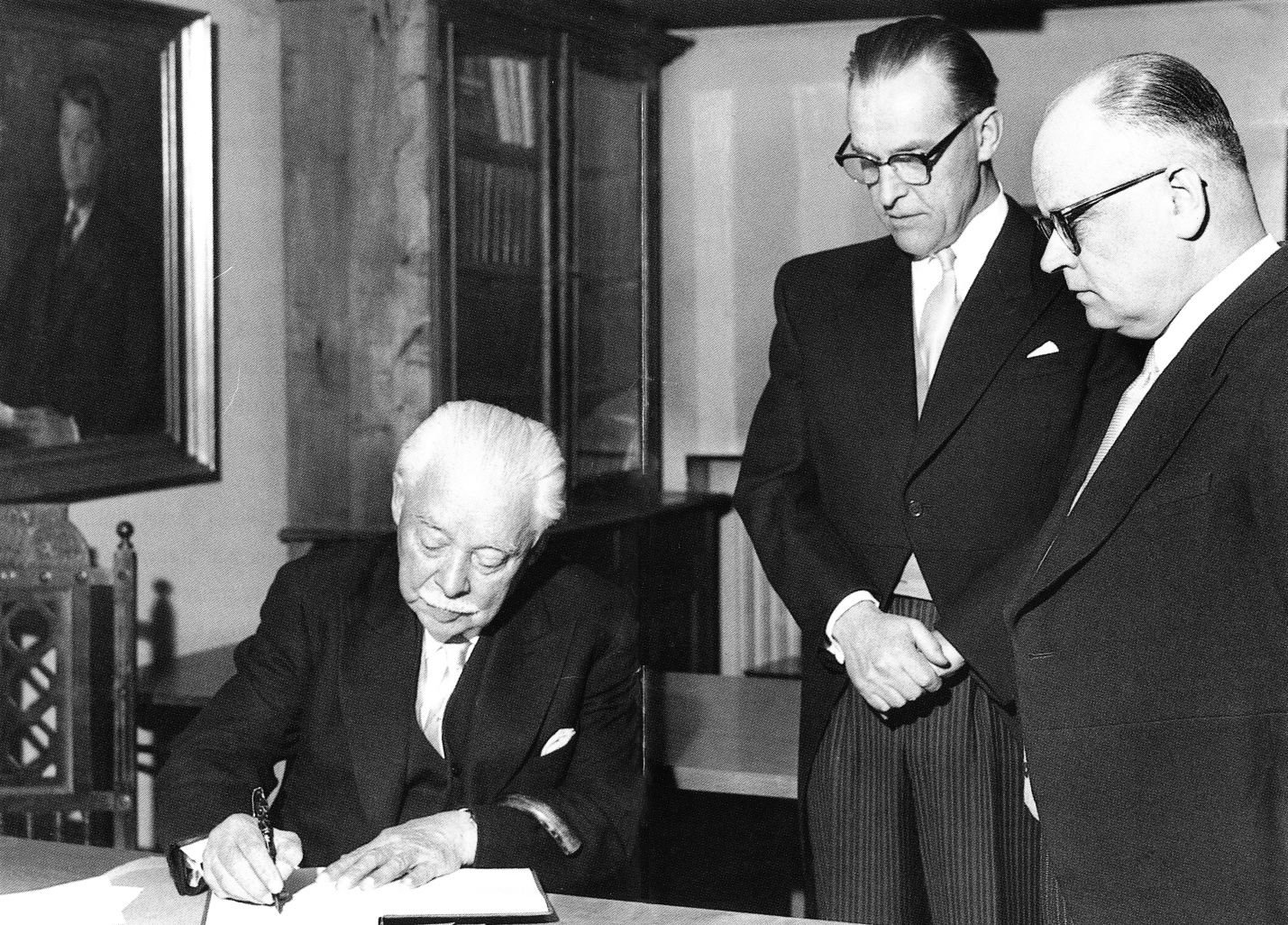 Photograph of the Finnish publishers Jalmari Jäntti (1876–1960), Yrjö A. Jäntti (1905–1985) and Ilmari Melander (1904–1987).